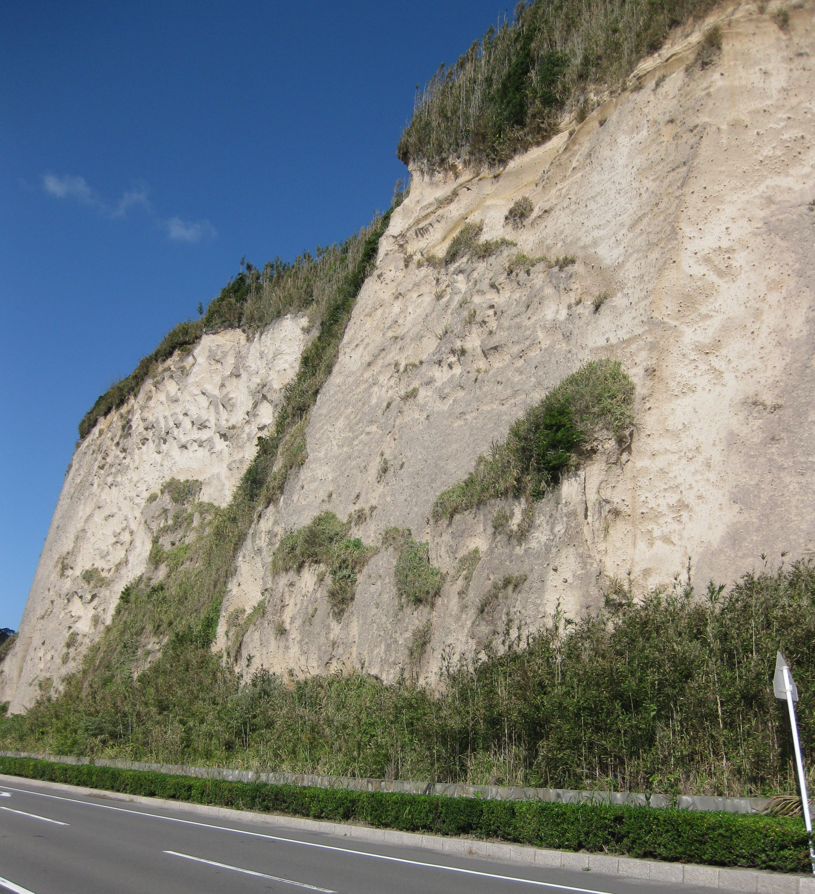 Shirasu Cliff of Eguchihama in Kagoshima, Japan